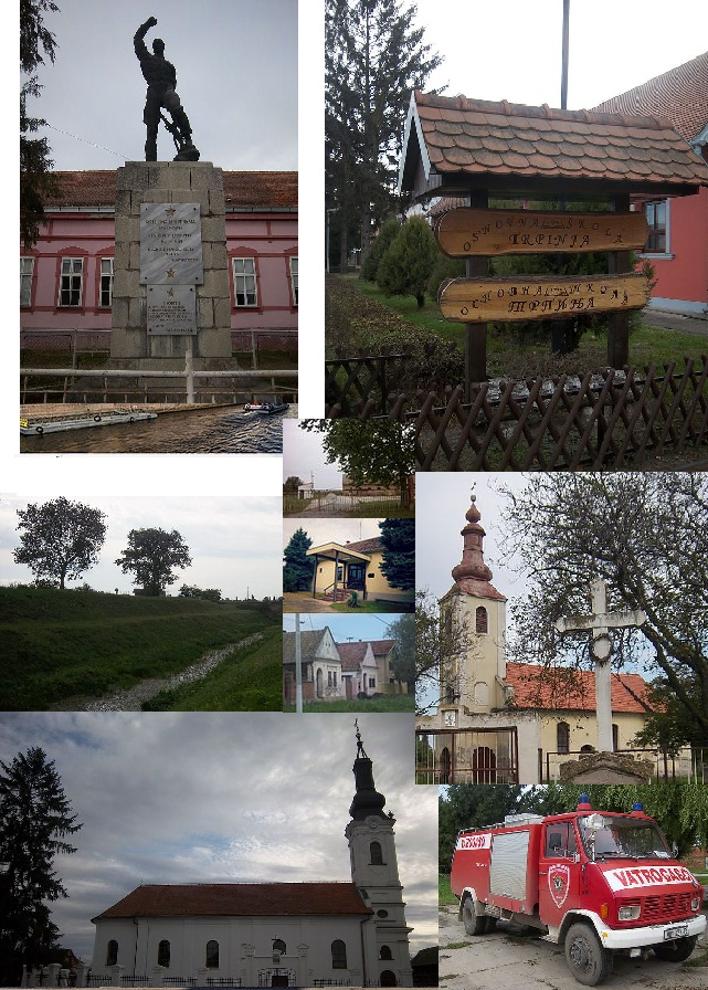 municipality Trpinja in eastern Croatia